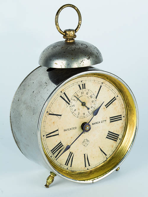 Alarm Clock "Globe", Ansonia Clock Company, New York (NJ), around 1880, Deutsches Uhrenmuseum, Inv. 2016-080